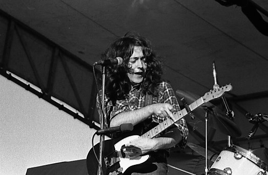 Blues Festival, Olympic Island, Toronto, 1977 Photo by Jean-Luc Ourlin